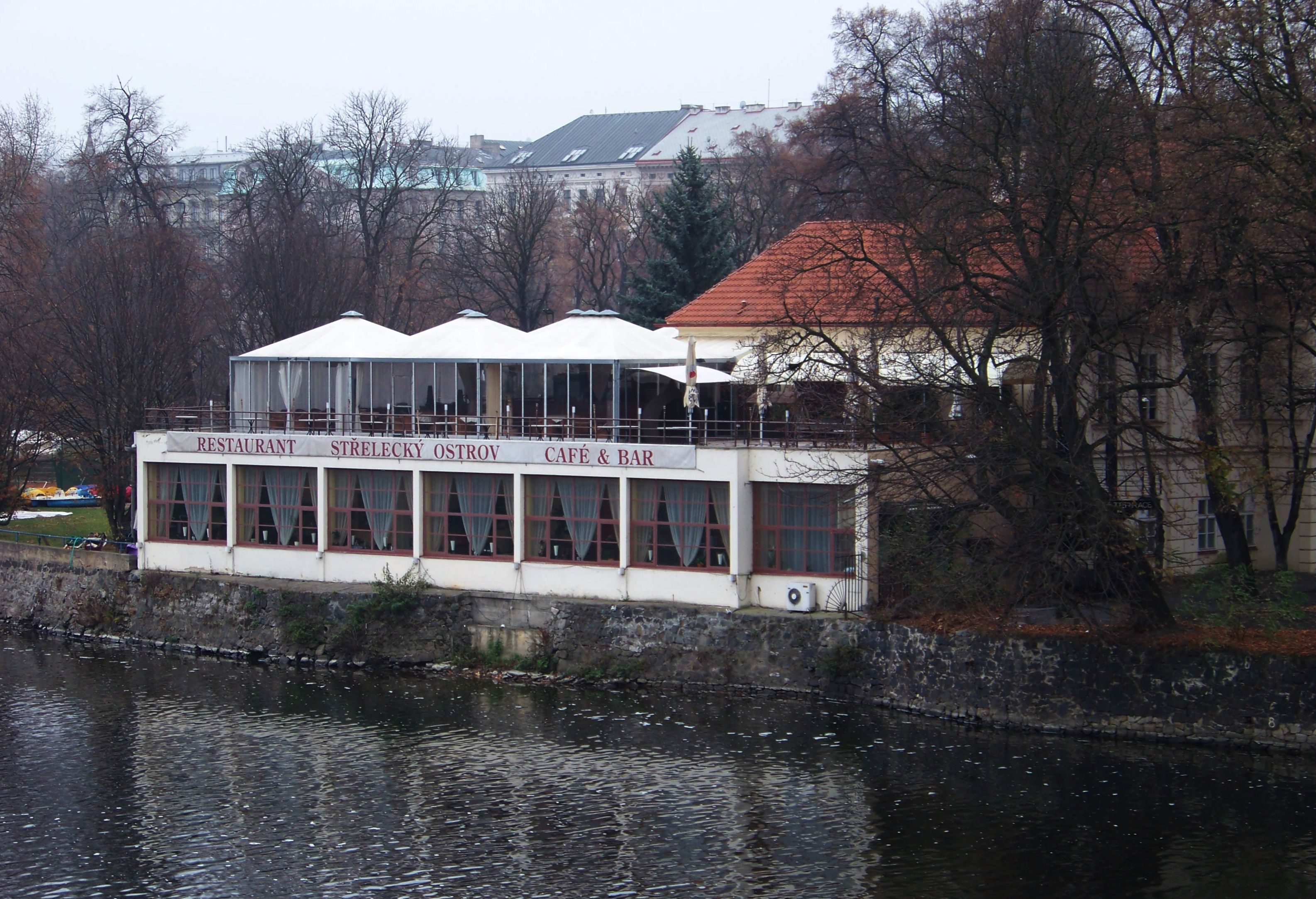 Prague-Old Town, the Czech Republic. The island of Střelecký ostrov, a restaurant, seen from Legions Bridge. - OpenStreetMap(Info)